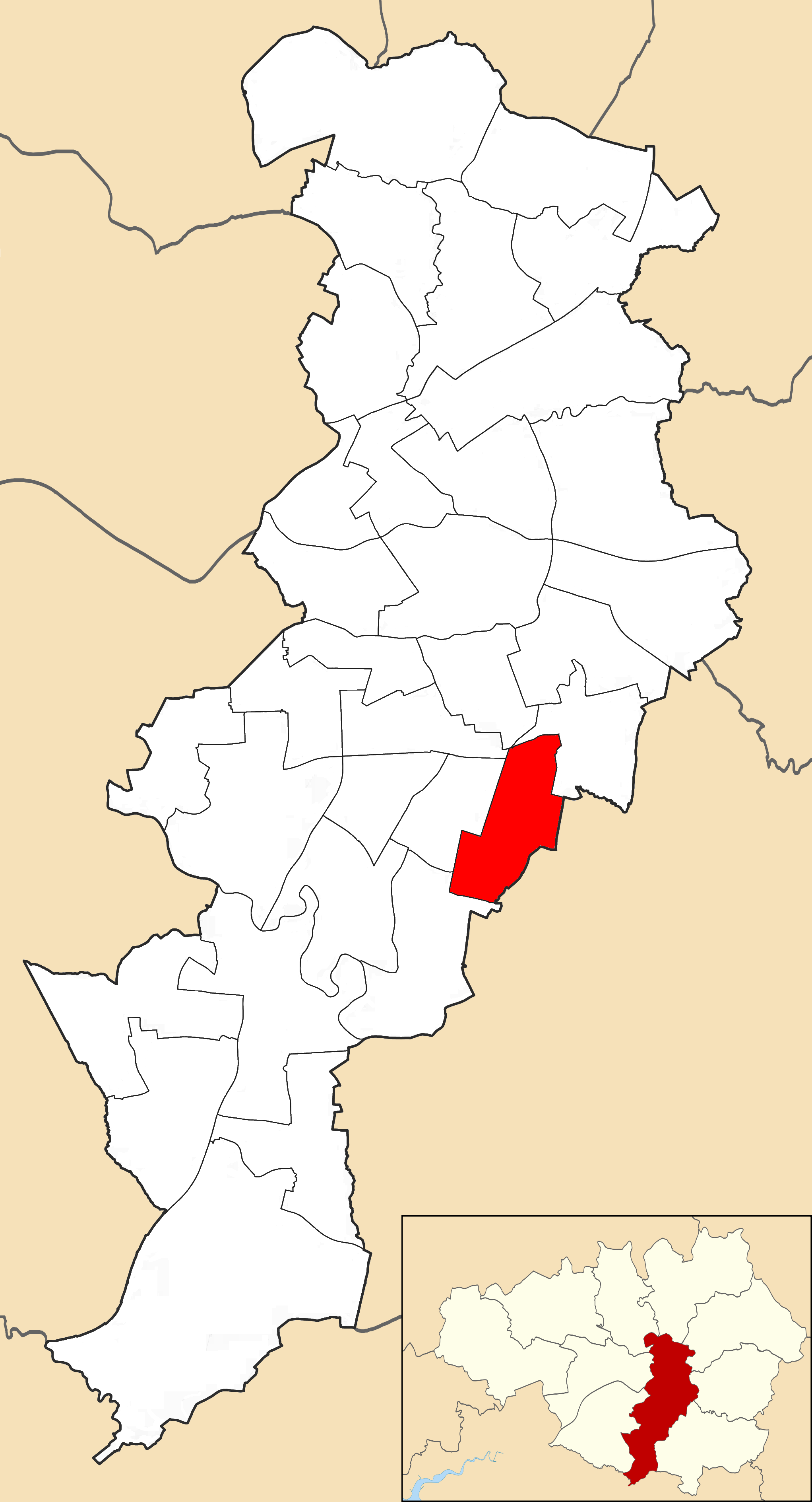 Map showing location of Burnage ward within Manchester City Council.